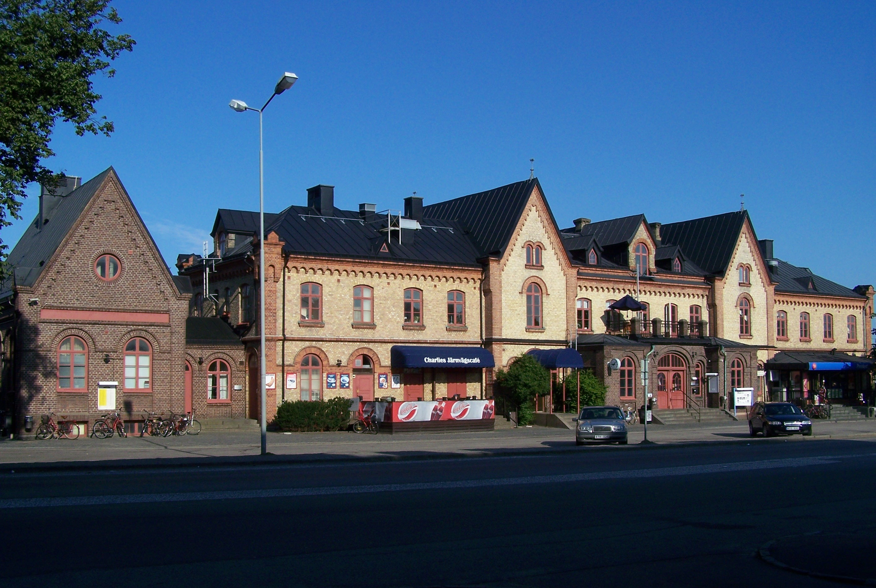 Varberg railway station